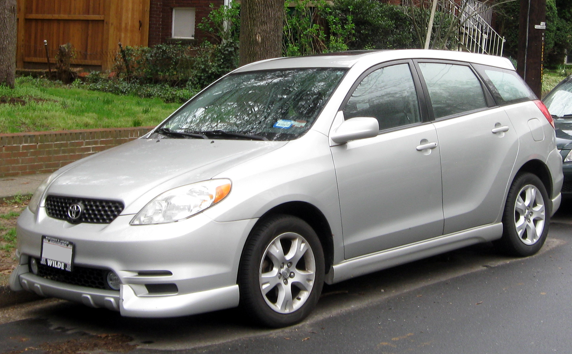 2003-2004 Toyota Matrix photographed in Washington, D.C., USA.